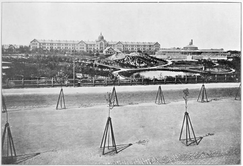 View over the newly established Botanisk Have (University of Copenhagen Botanical Garden) in Copenhagen, Denmark. The "Kommunehospitalet", also built at that time, can be seen in the background.